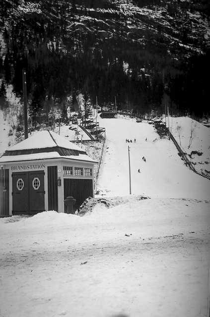 Ingolfslandbakken ski jumping hill in Rjukan, Telemark county, Norway. On the left in the foreground a fire station.